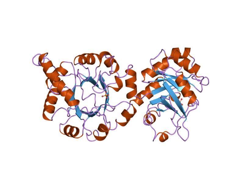 Cartoon representation of the molecular structure of protein registered with 1pii code.